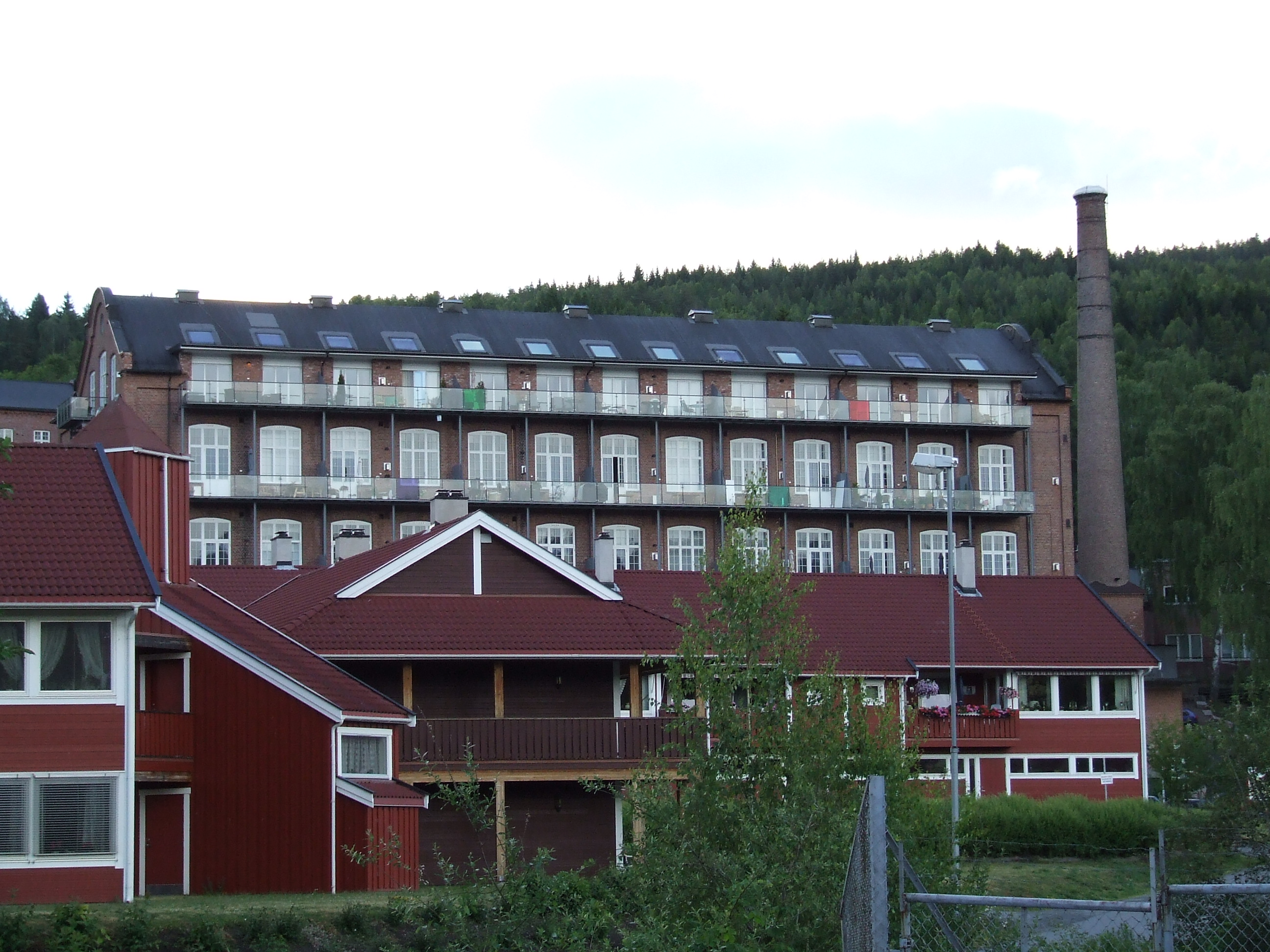 Photo of the Solberg Spinderi company's former weavery building, now converted to apartments. Taken from the road below.